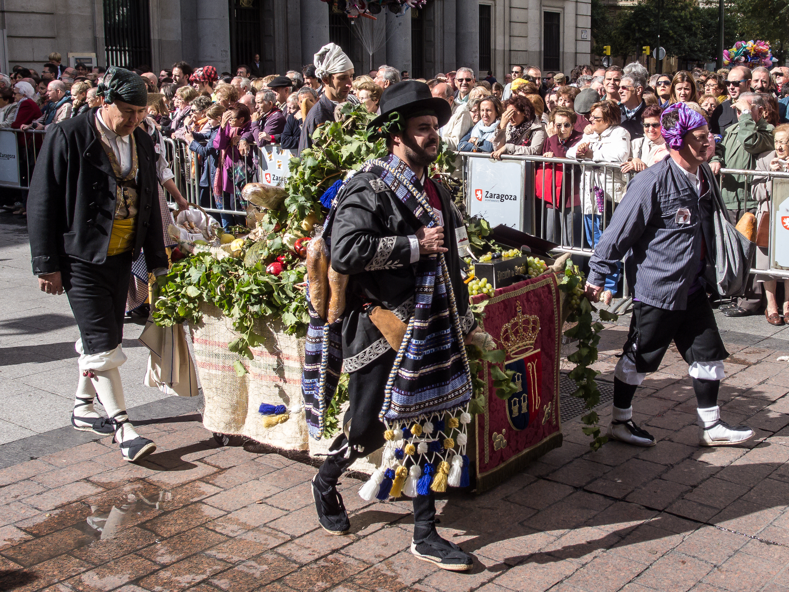 OLYMPUS DIGITAL CAMERA This is a photography of a Folklore festival in Spain (Wikidata id Q3092925).